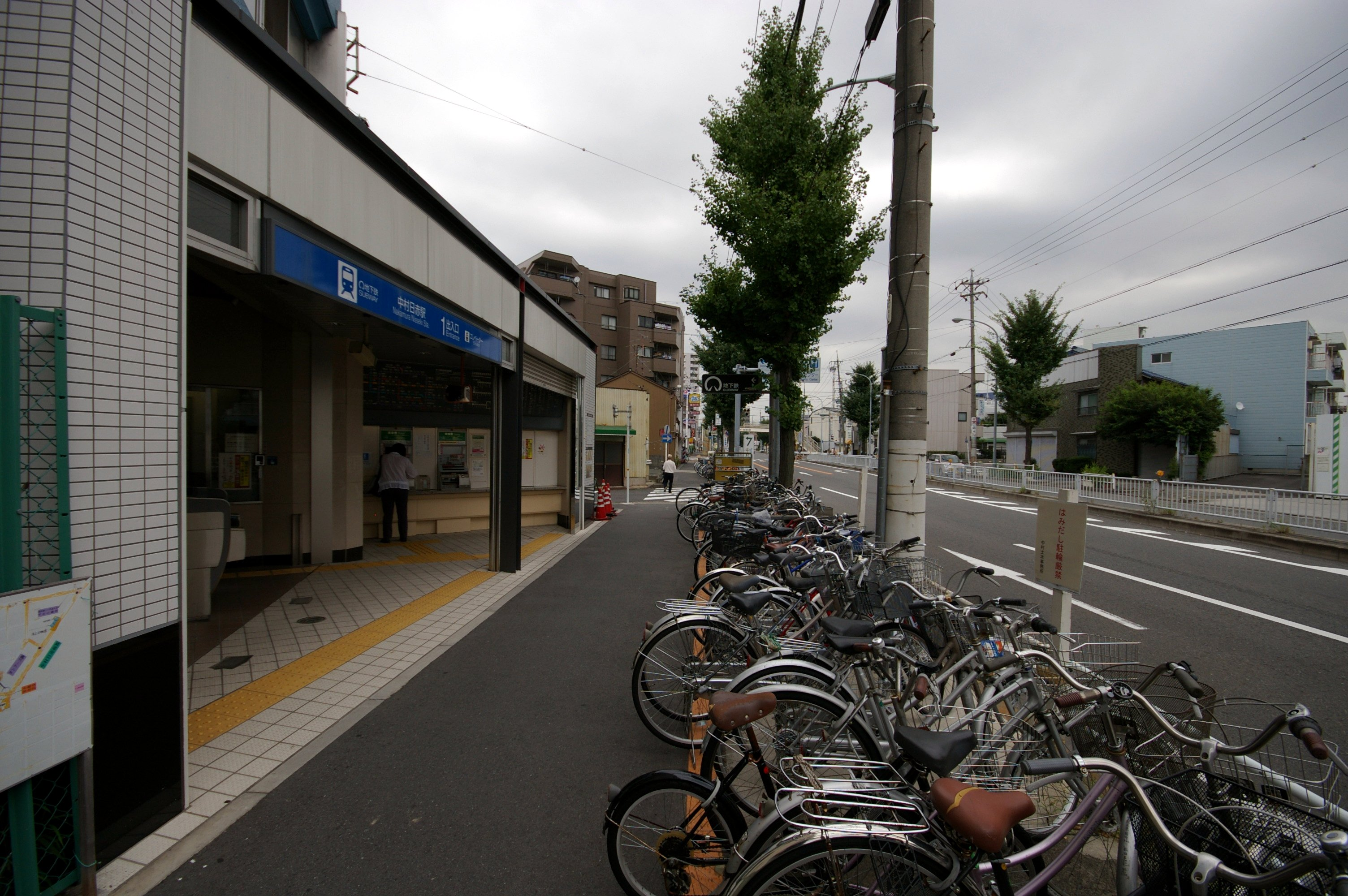 Nagoya Nakamura Nisseki Subway Station